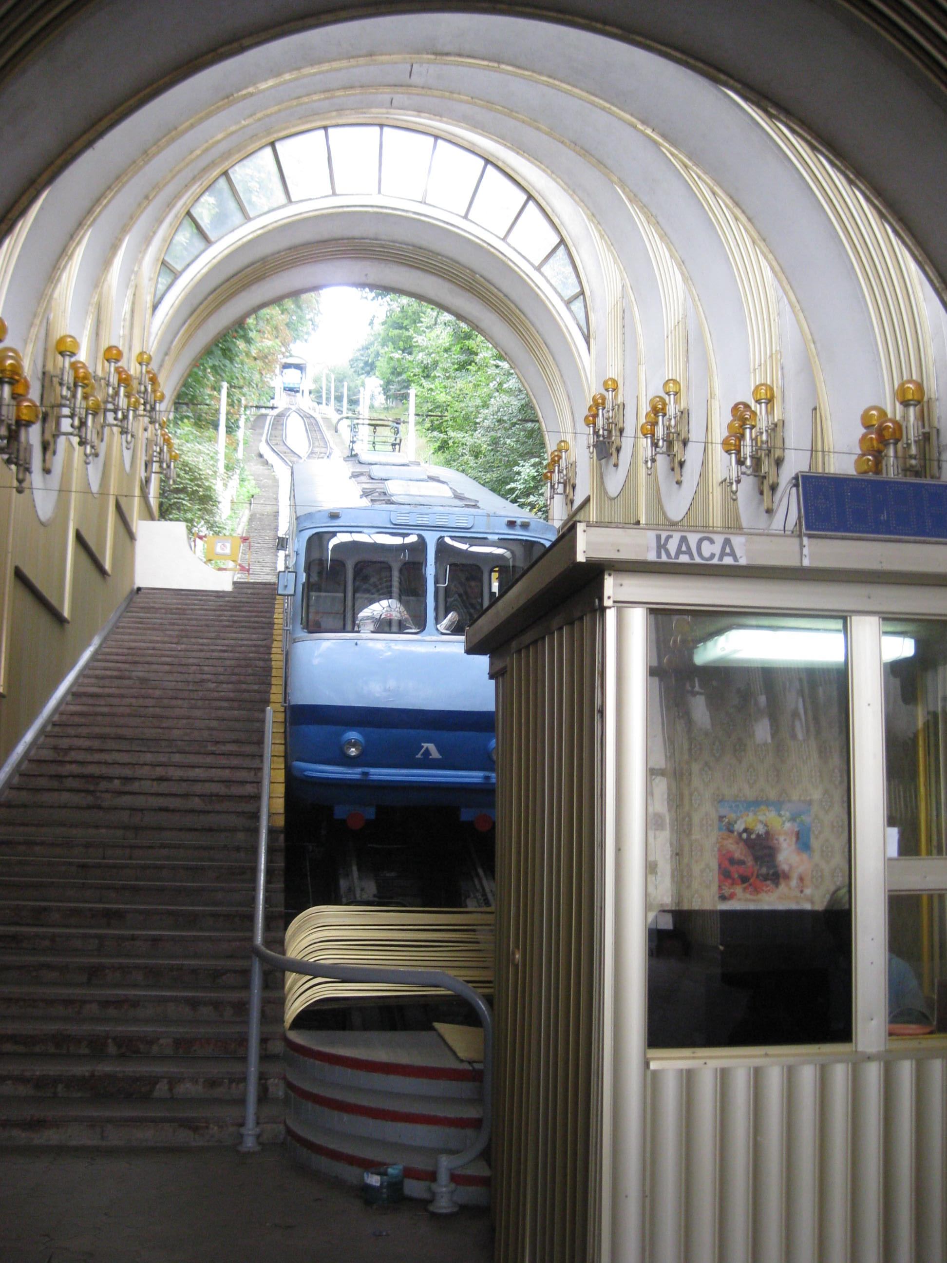 Funicular in Kiev Ukraine